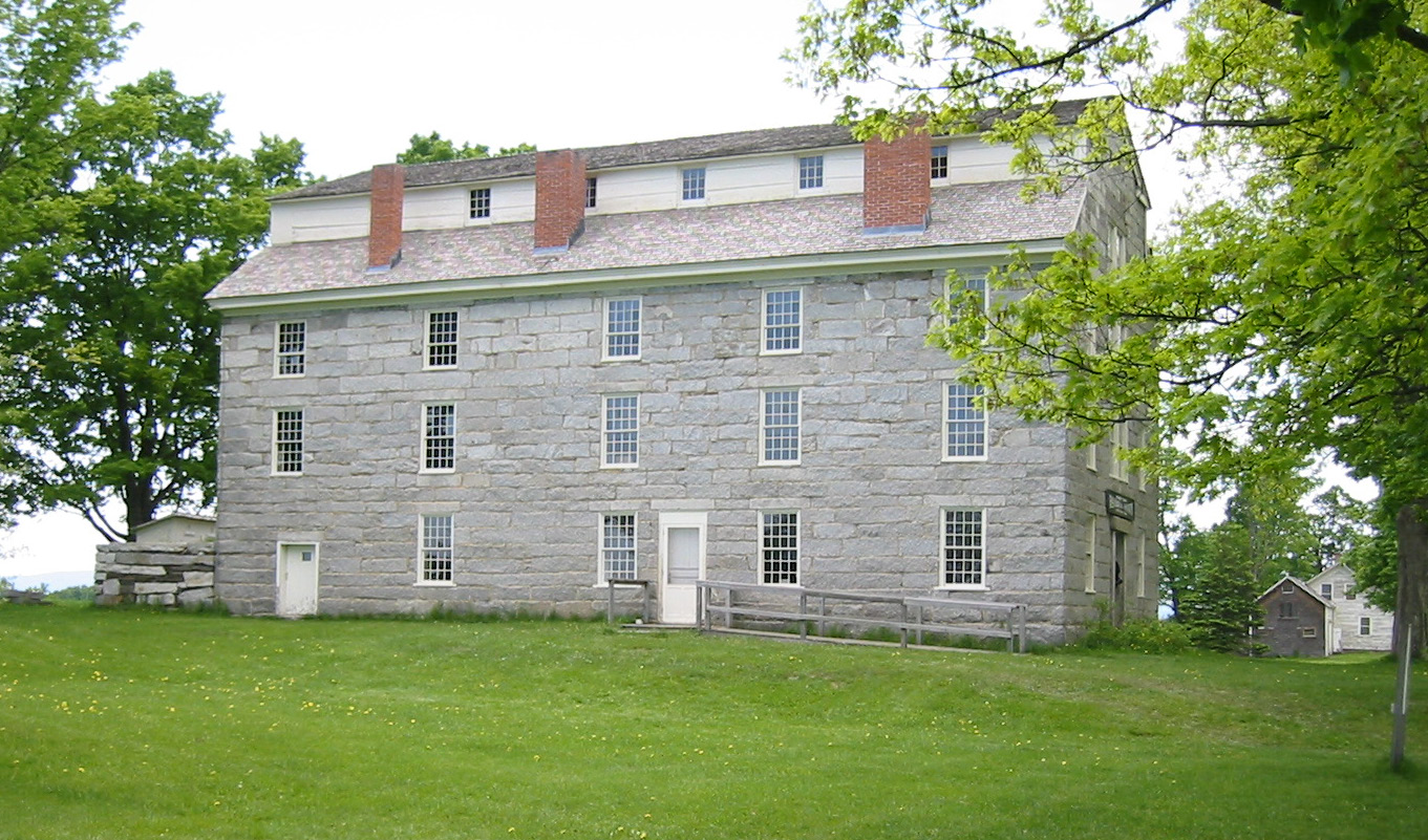 The Old Stone House Museum in Brownington, Vermont, built by Alexander Twilight; part of the Brownington Village Historic District.